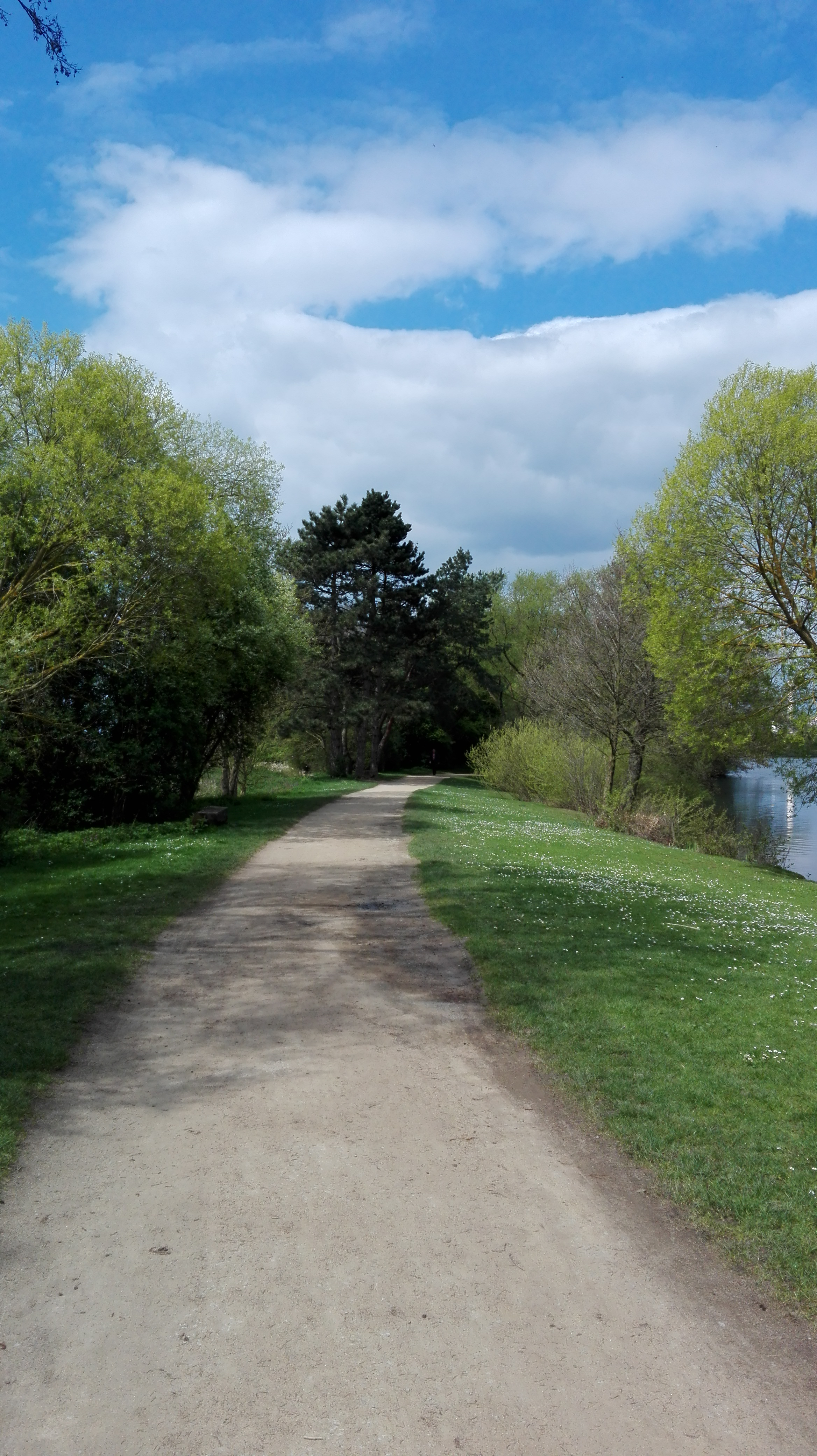 The picture, staying out of time and space. Schweinfurt in Bavaria (Germany)